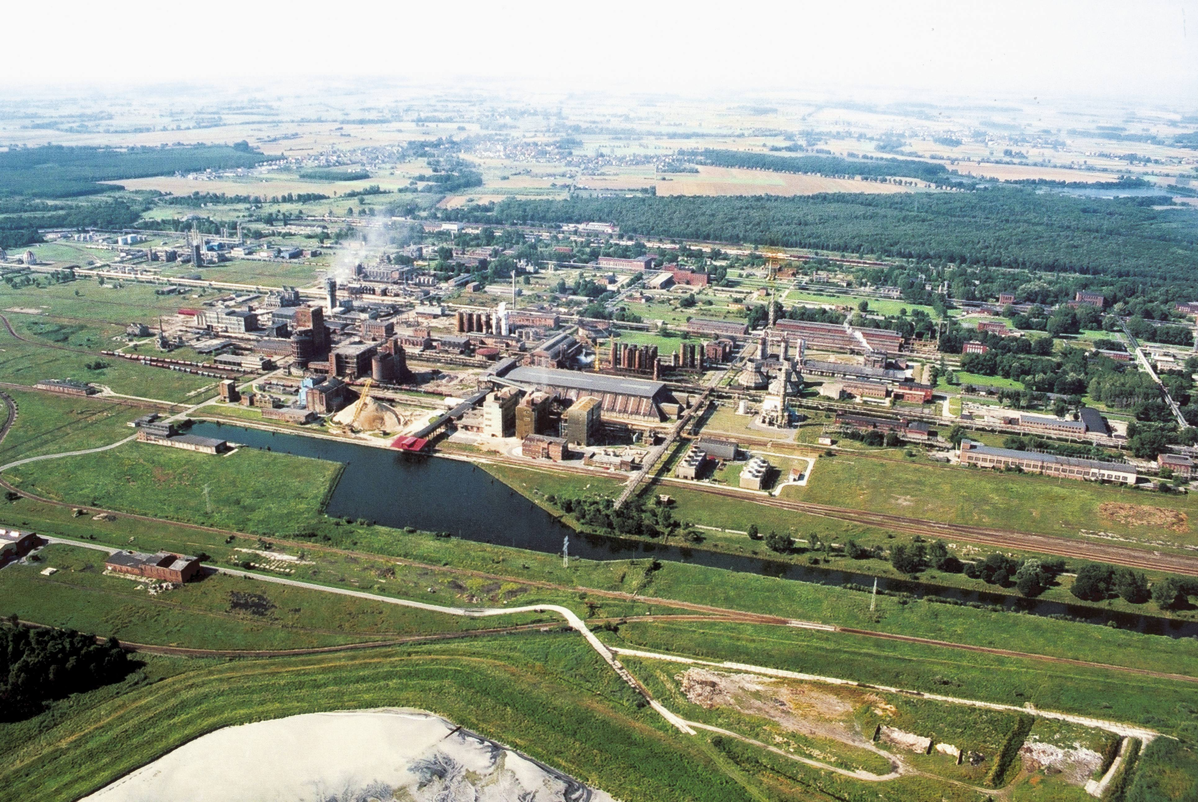 A terminal port of the Kedzierzyn canal, complete part of Donau-Oder canal built in 1938-1943.